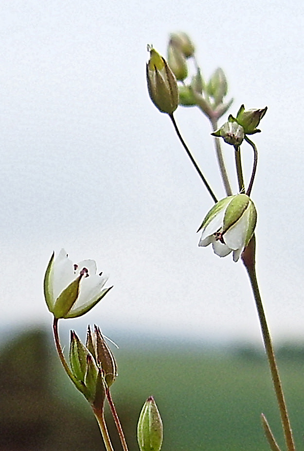 Minuartia hybrida var. vaillantiana (from Wehrheim, Hesse, Germany)